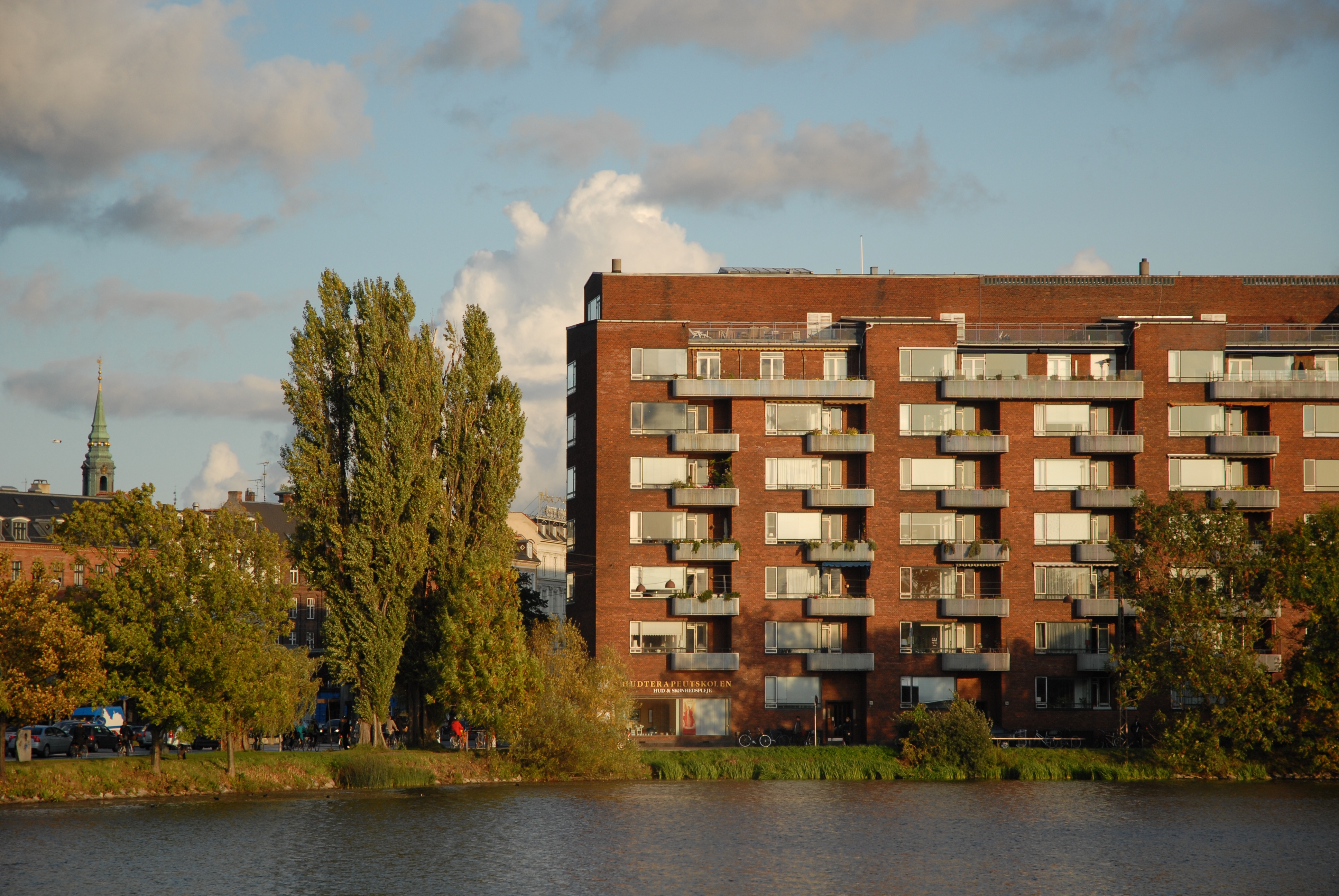 Building: Vestersøhus housing, copenhagen denmark 1935-1939 (built in two stages) Architects: kay fisker and c.f. møller